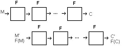 A pictorial representation of slide attacks